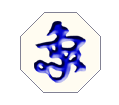 One of the janggi pieces.